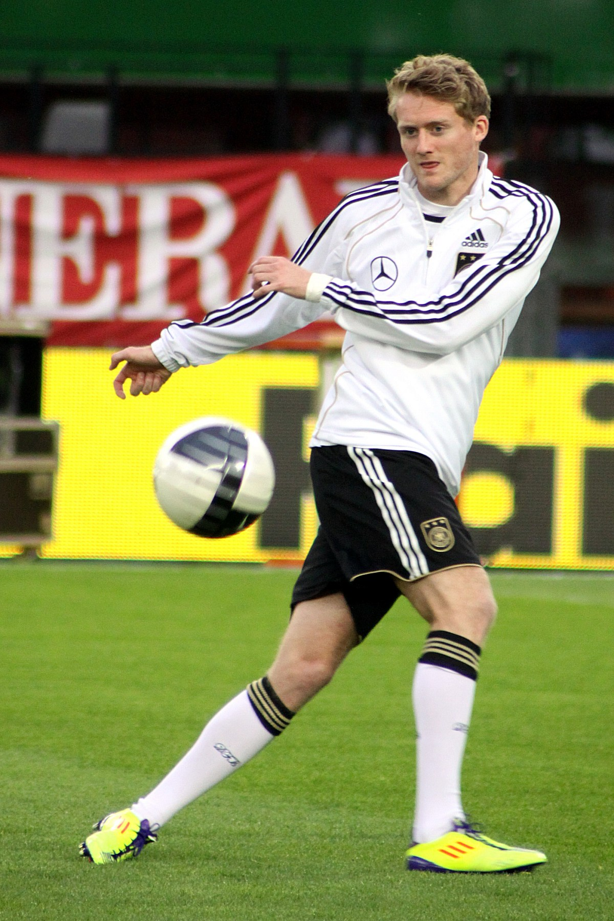 André Schürrle (Mainz 05), german national football team